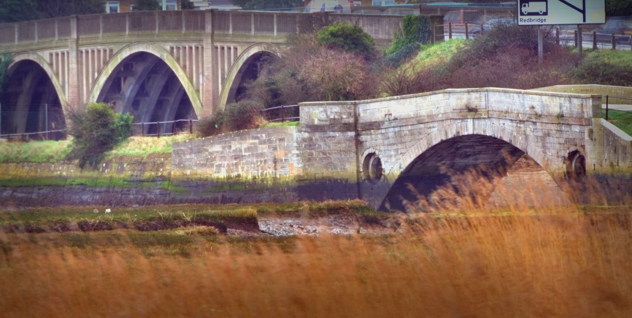 The old bridge is in the foreground, with the new to the rear. Made Explore: Highest position: 456 on Mar 4, 2007.